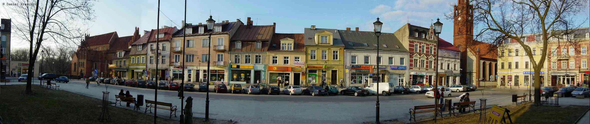 Marketplace of city Starogard Gdański in Poland. Photo by Daniel Krawczyk, who agreed to publice these photo on following licence.